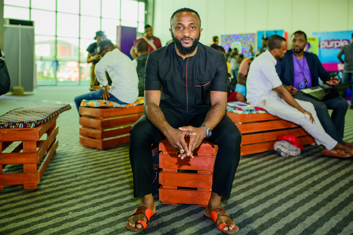 Danjuma Ernest at the Social Media Week held in Lagos in 2017.